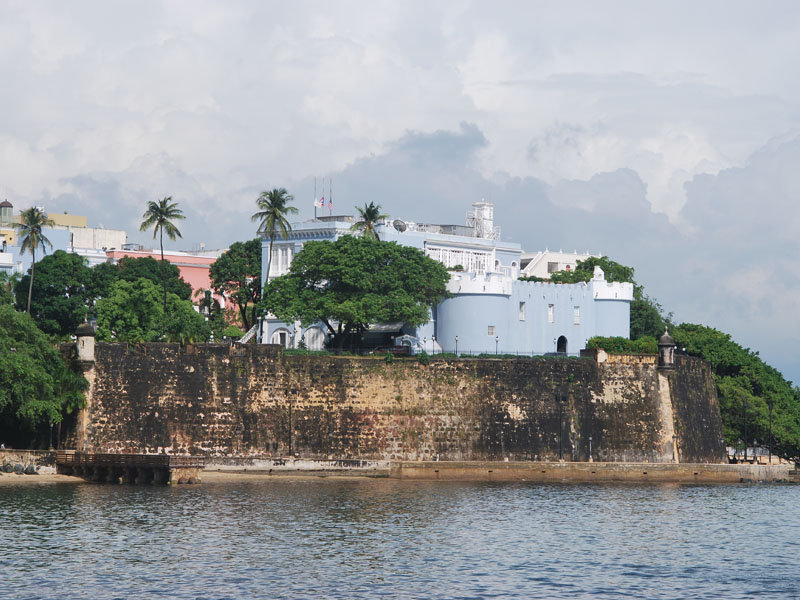 The residence of the Governor of Puerto Rico, La Fortaleza in San Juan - the oldest executive mansion in the New World